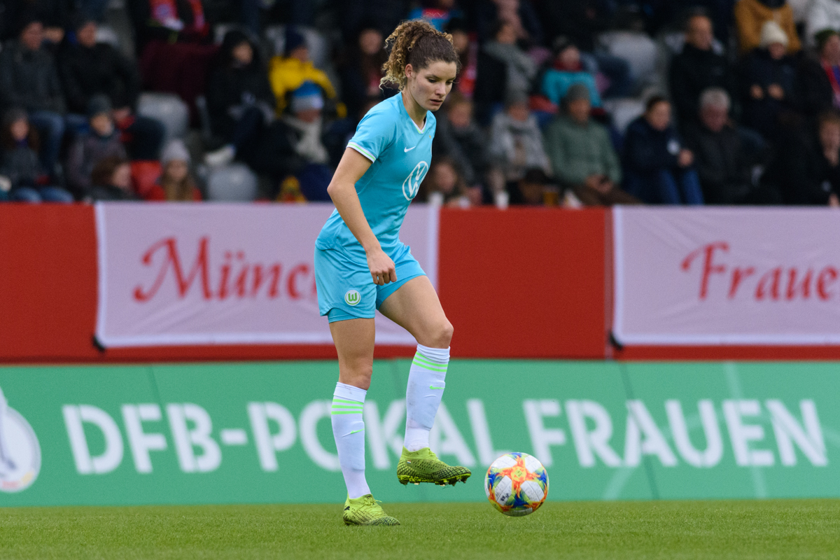 Dominique Bloodworth at FC Bayern vs VfL Wolfsburg